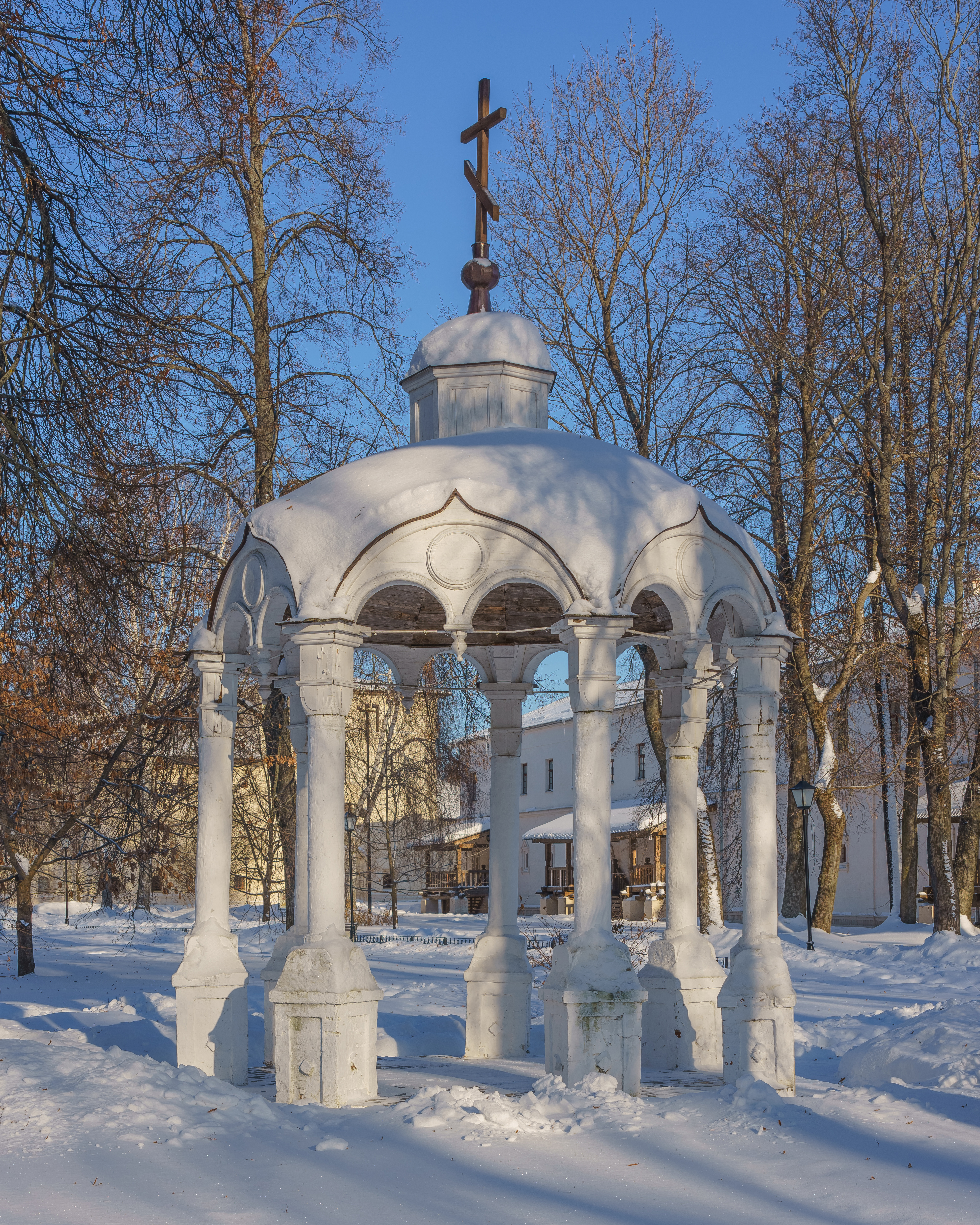 Ciborium in Spaso-Evfimiev Monastery in Suzdal, Russia